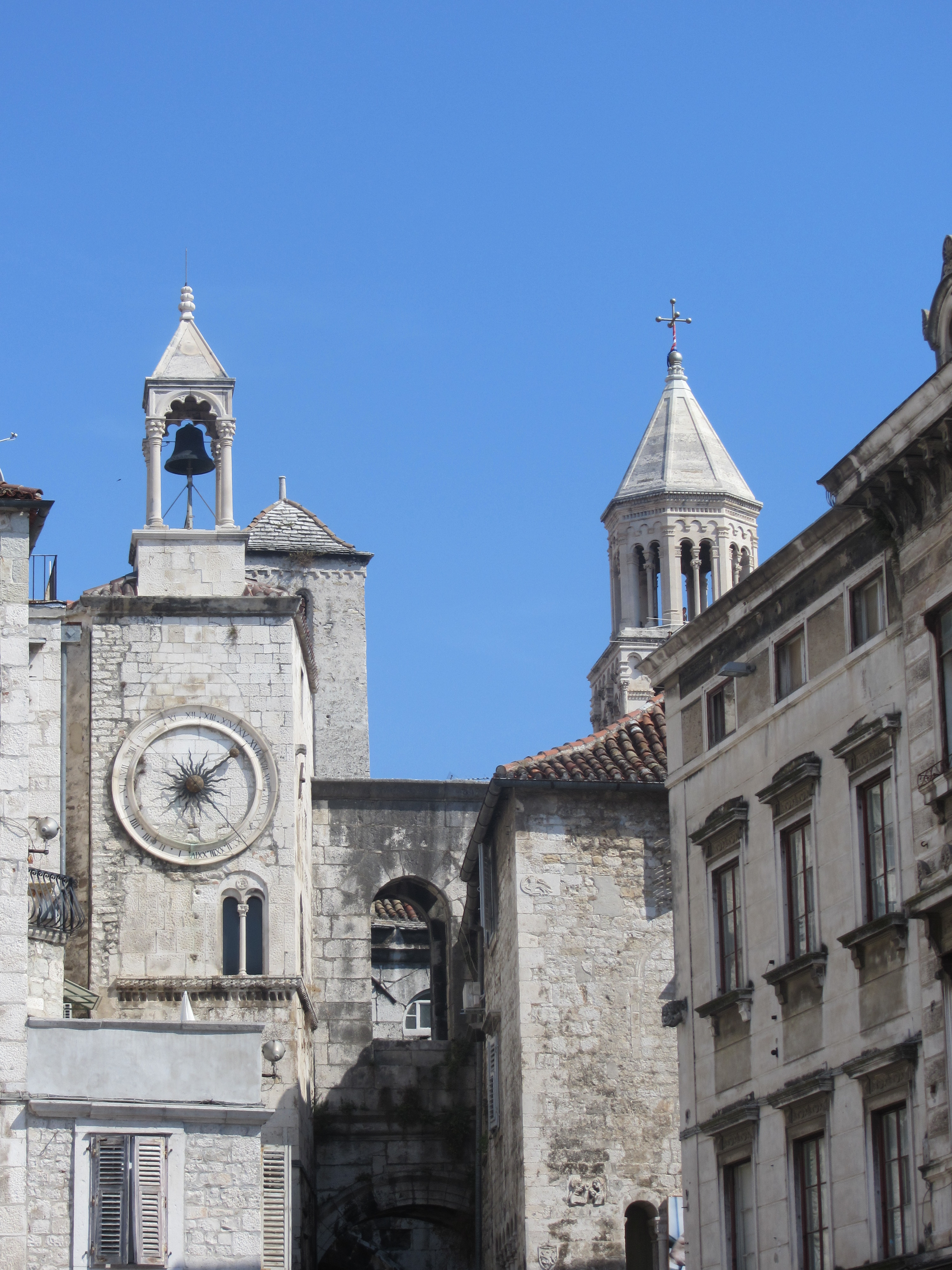 Split, Croatia